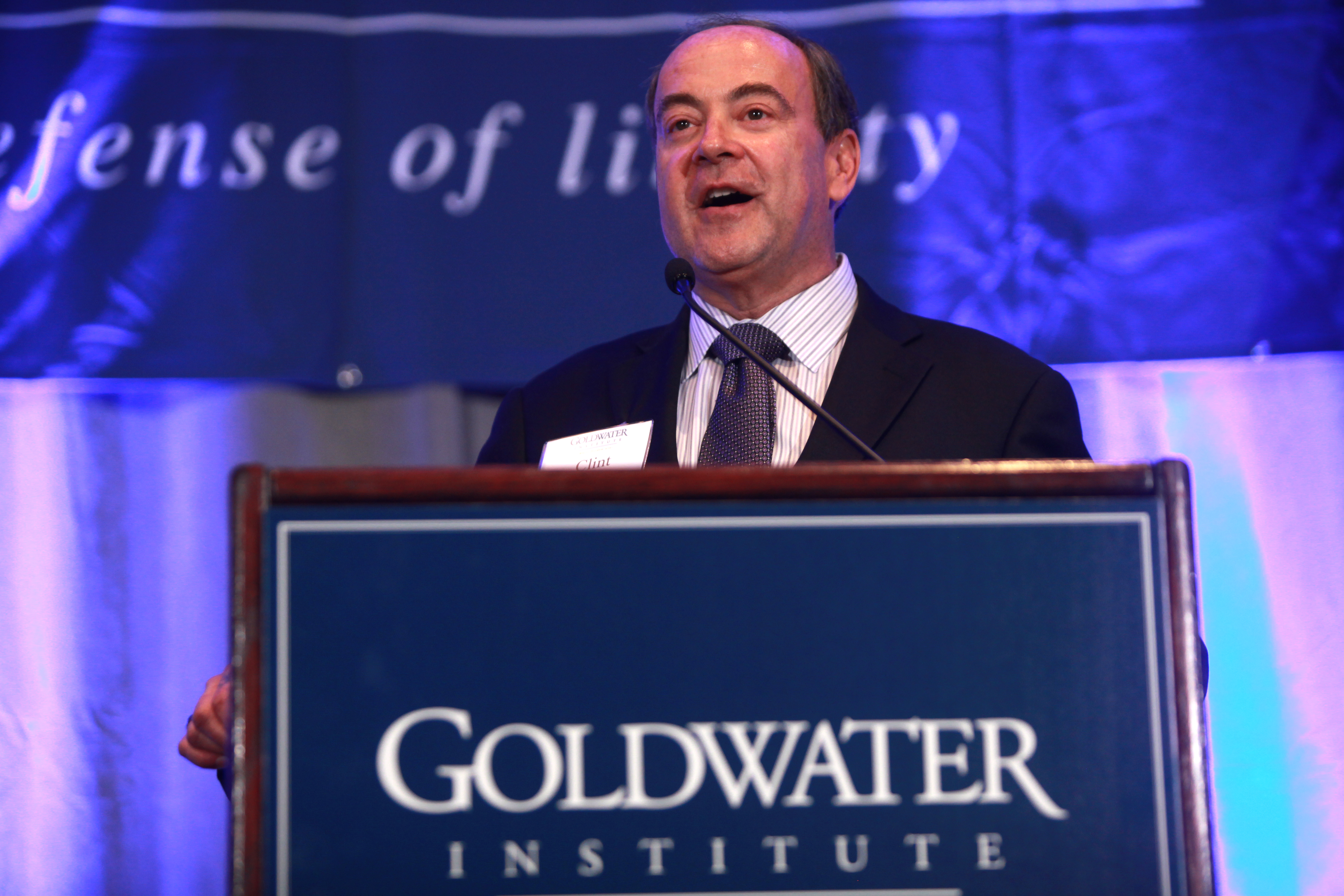 Clint Bolick speaking at a dinner fundraiser for the Goldwater Institute at the Scottsdale Plaza Resort in Scottsdale, Arizona, and introducing Senator Rand Paul.